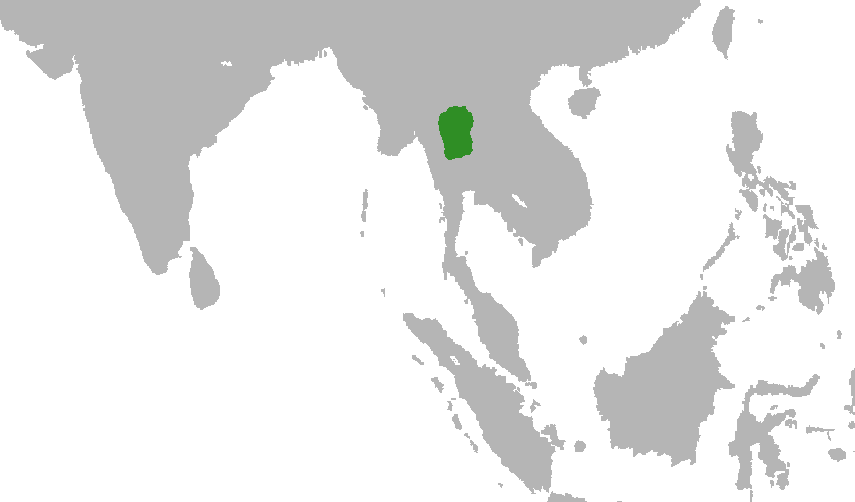 A map showing the location of the Kingdom of Haripunjaya.